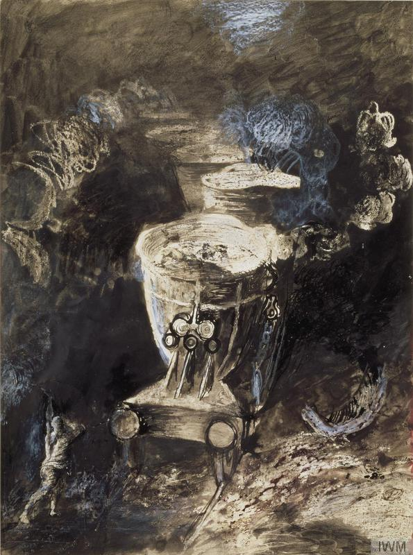 A train of large vats of a liquid material with a figure following behind